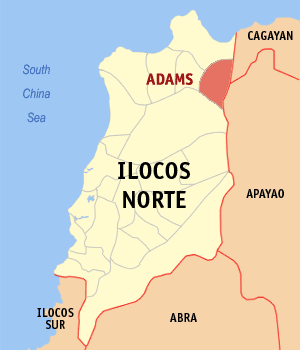 Map of Ilocos Norte showing the location of Adams